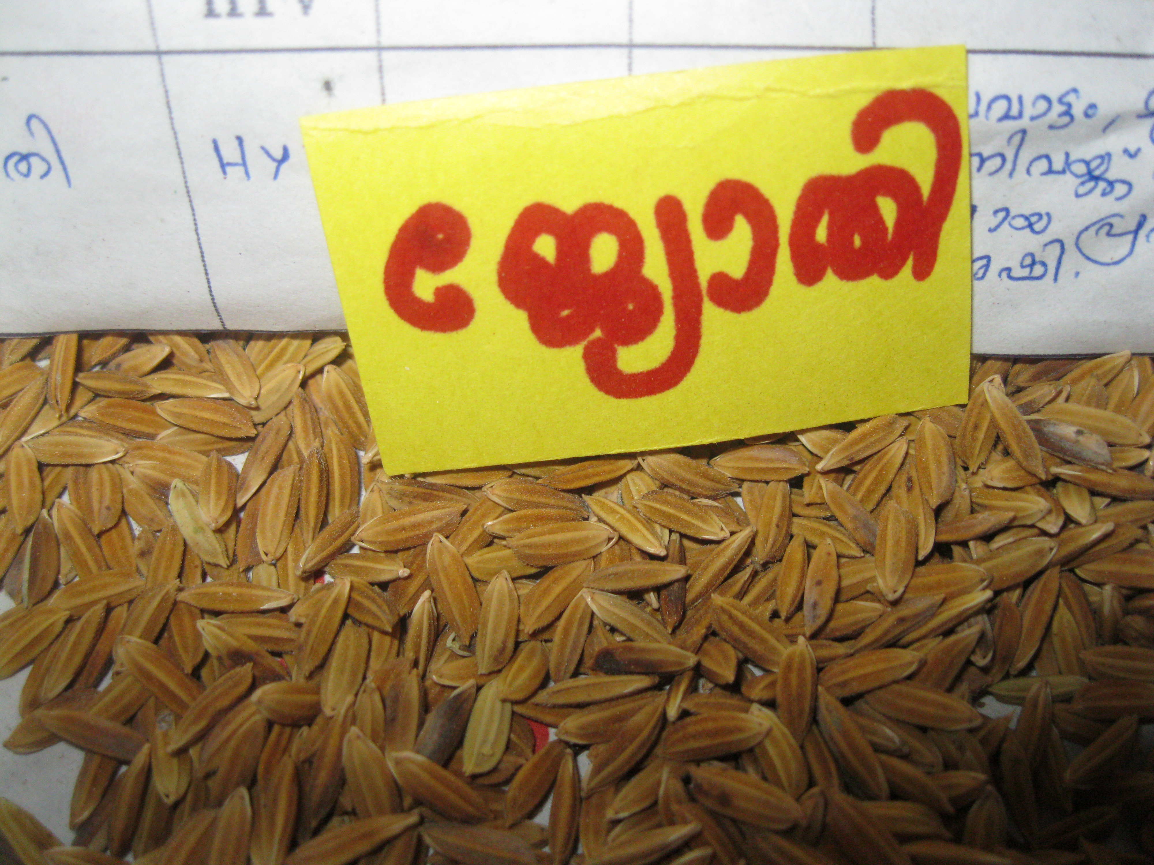 jyothi a paddy seed in Kerala India